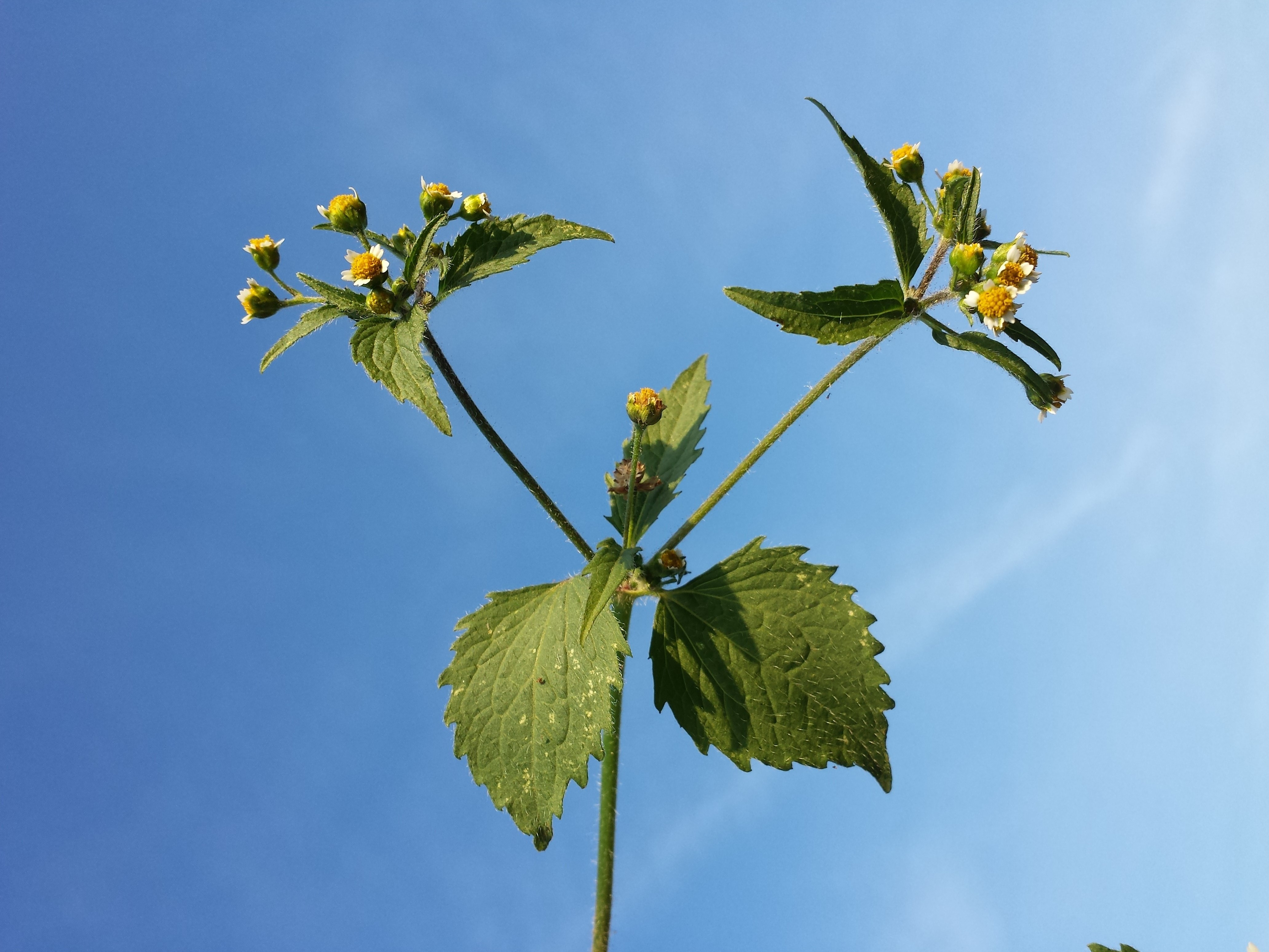 Habitus Taxonym: Galinsoga ciliata ss Fischer et al. EfÖLS 2008 ISBN 978-3-85474-187-9 Location: near Steinberg near Niederhollabrunn, district Korneuburg, Lower Austria - ca. 300 m a.s.l. Habitat: wine yard